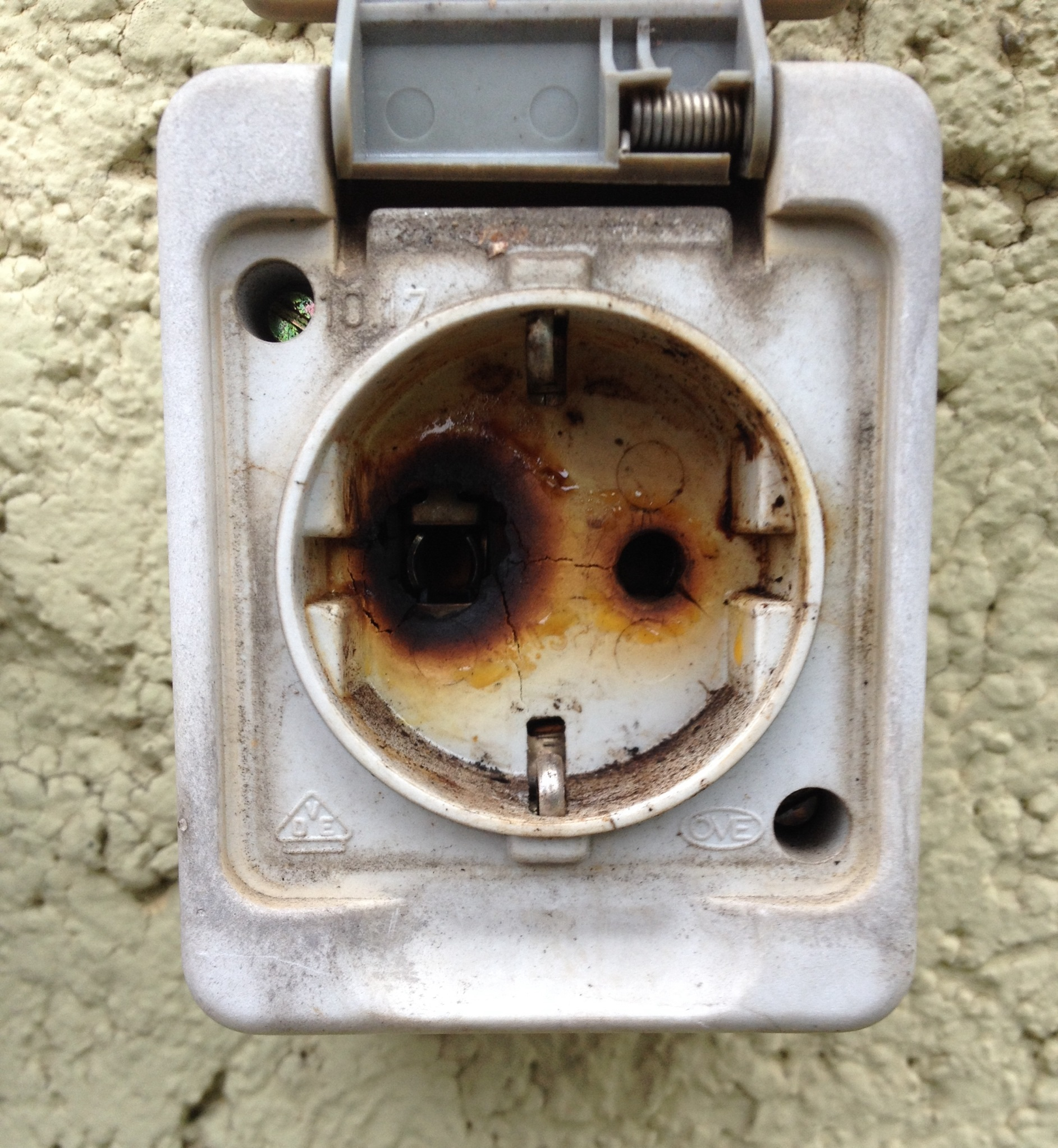 Overloaded electrical outlet.